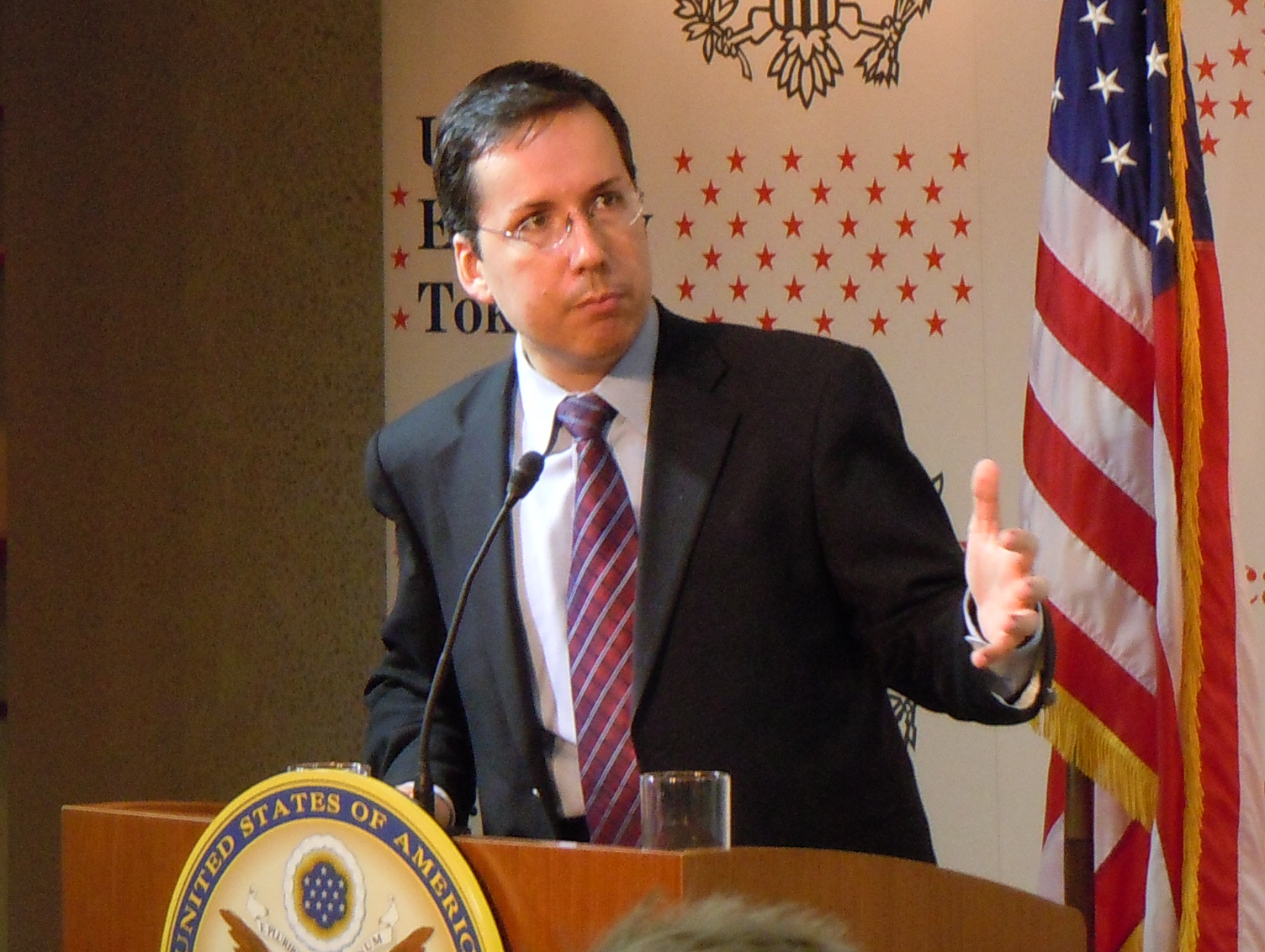 Nicholas Kralev during a speech in Tokyo.